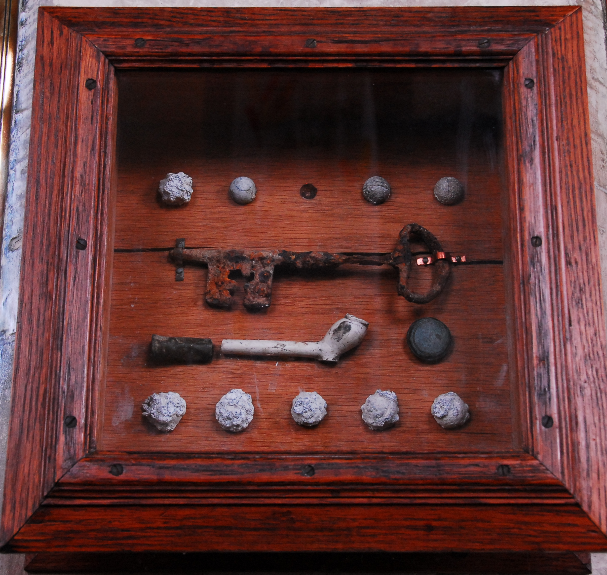 Finds after Battle of Alton displayed in Church of St Lawrence, Alton